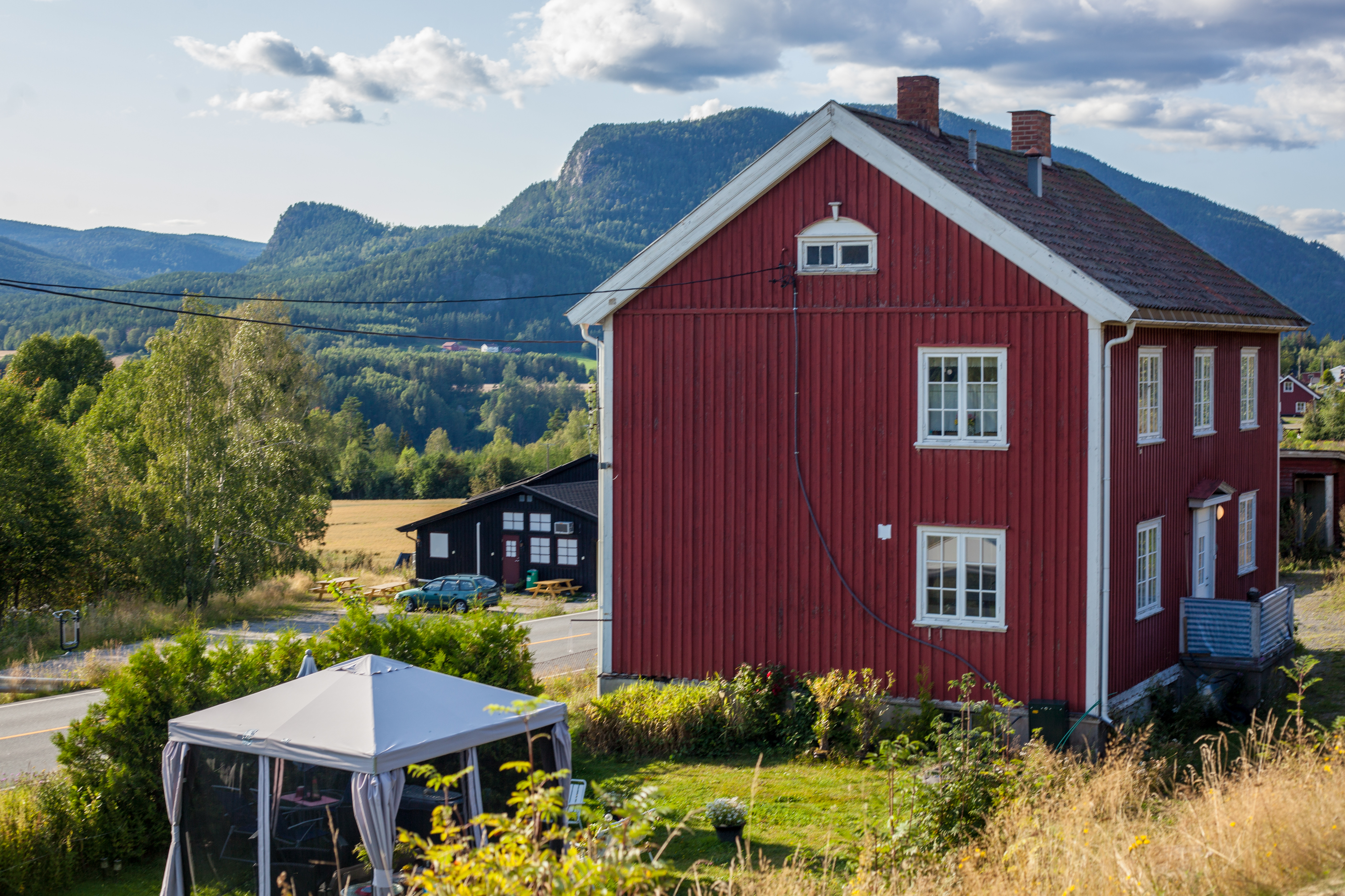 View of a red house in village Nordagutu, municipality Sauherad, Telemark County, Norway